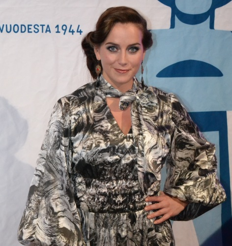 Iina Kuustonen in 2010 Jussi Award.